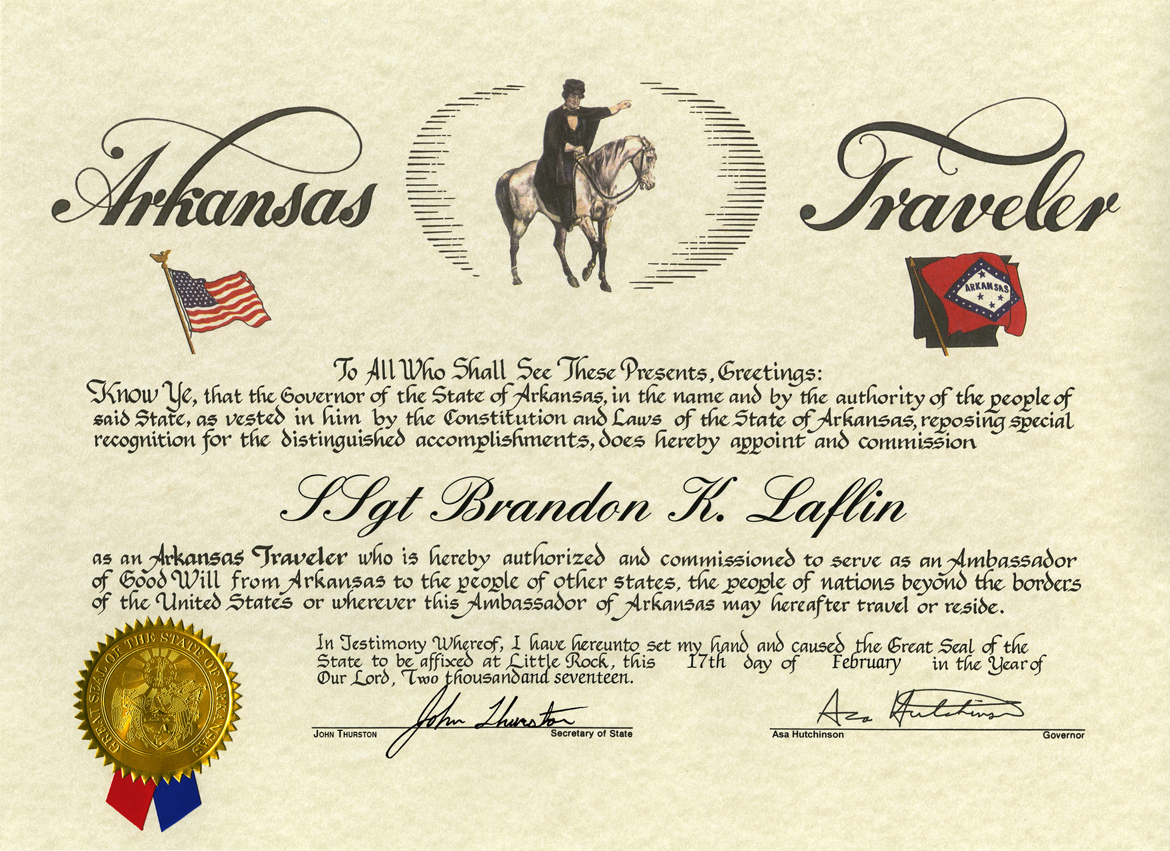 Arkansas Traveler Certificate for SSgt Brandon K. Laflin, signed by Arkansas Secretary of State John Thurston and Governor Asa Hutchinson, February 17th, 2017